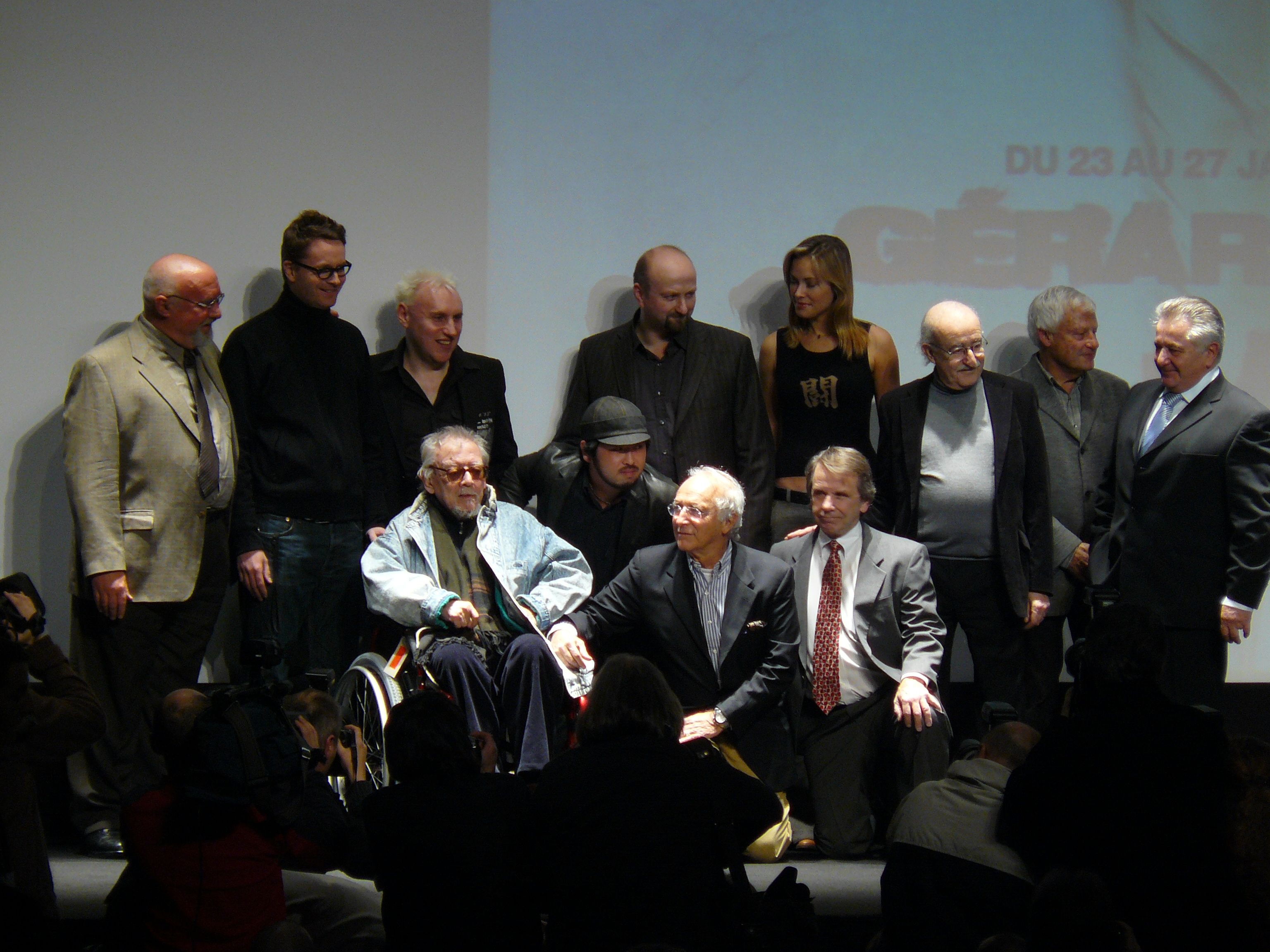 From left to right, 2nd line : Stuart Gordon, Nicolas Winding Refn, Jake West, Neil Marshall, Kristanna Loken, Juraj Herz, Lionel Chouchan (founder of the festival), Pierre Sachot (president of Fantastic'Arts association) 1st line : Jess Franco, Takashi Shimizu, Ruggero Deodato, Sean S. Cunningham